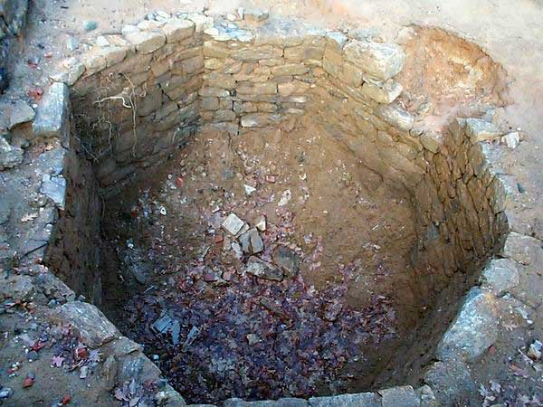 Icehouse pit, built circa-1781, President's House site, Independence National Historical Park, Philadelphia, Pennsylvania. Excavated November/December 2000.